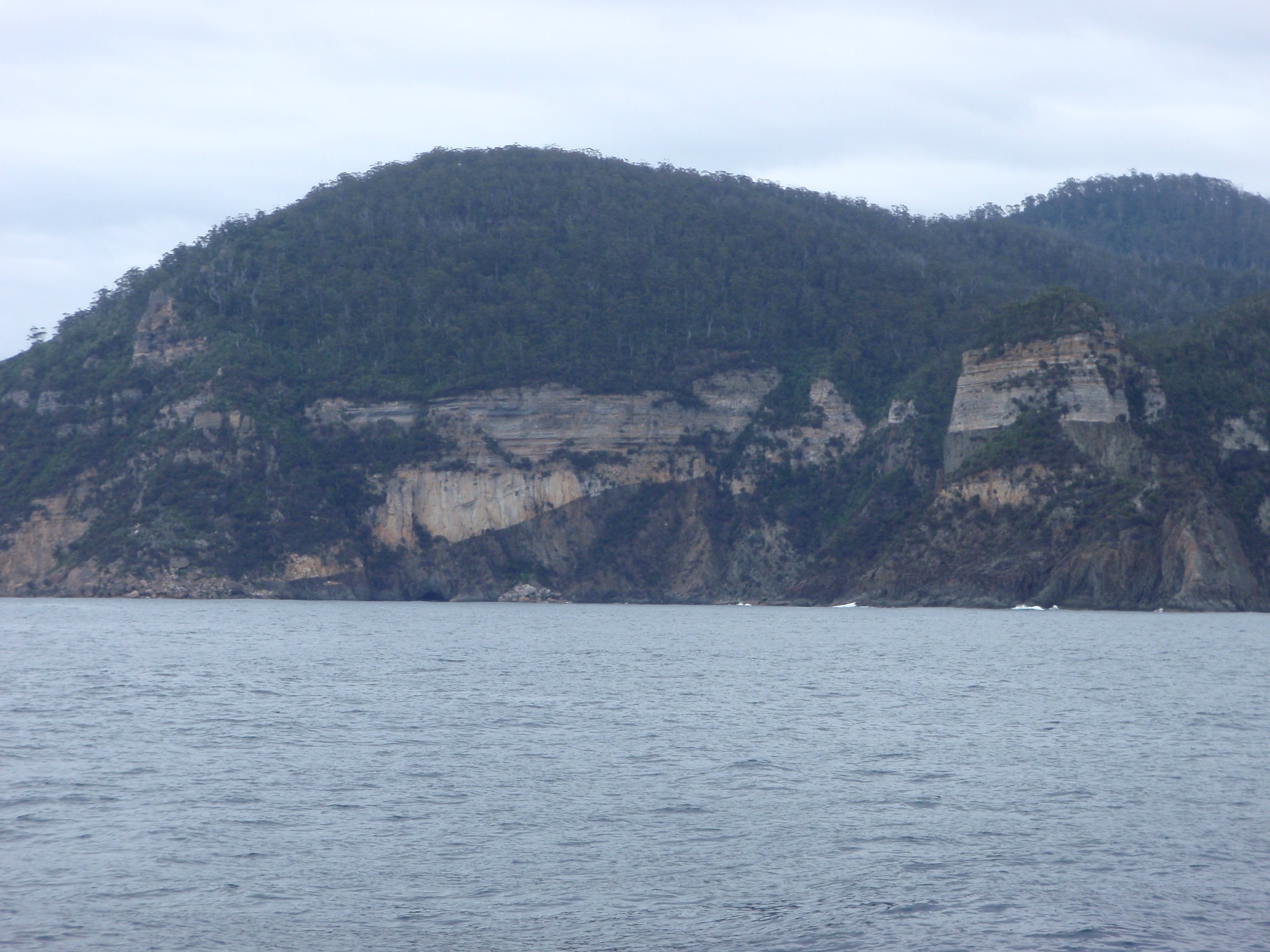 High Yellow Bluff, Forestier Peninsula from offshore.